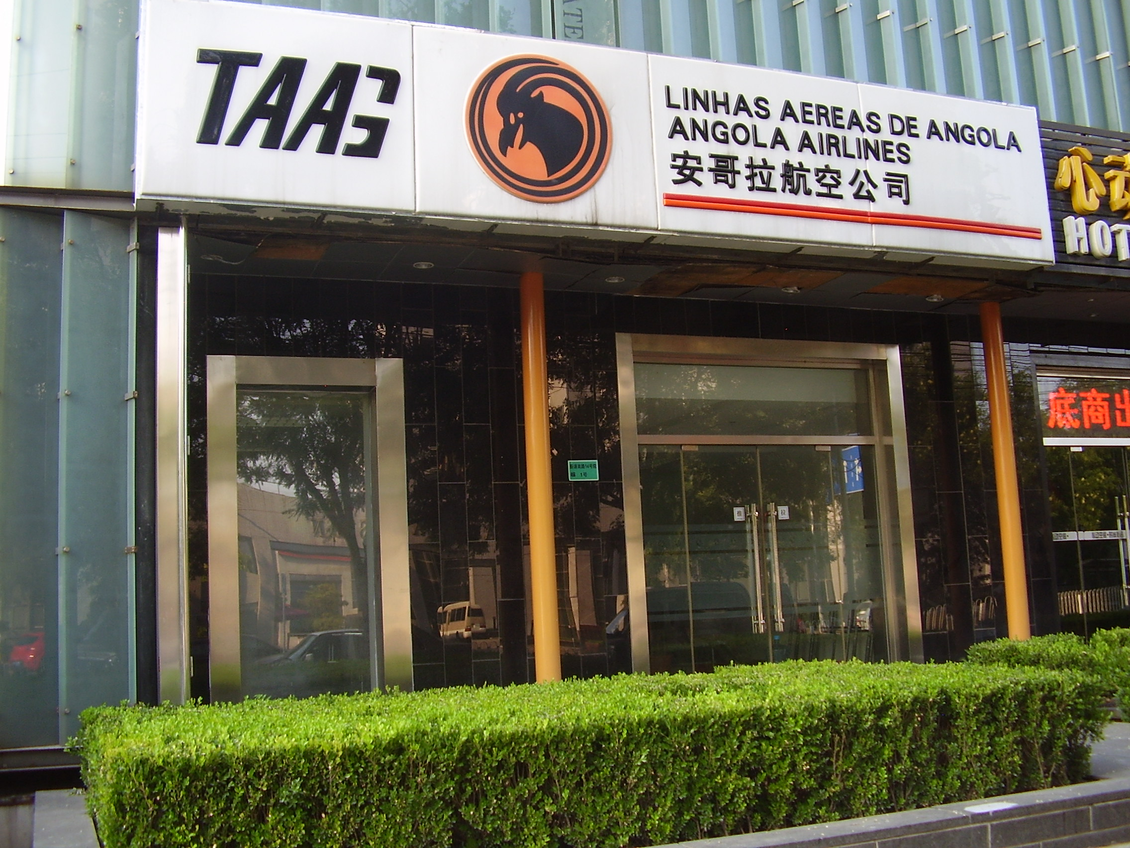 TAAG Angola Airlines Beijing office - A2601, Eagle Run Plaza (S: 鹏润大厦, T: 鵬潤大廈, P: Péng Rùn Dàshà), No 26 Xiaoyun Road, Chaoyang District, Beijing, 100016